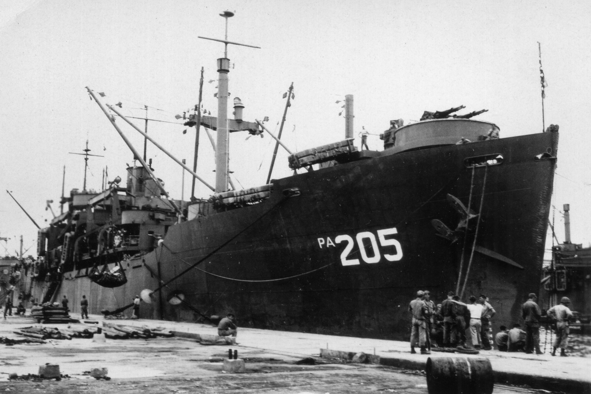 USS Sherburne (APA-205) moored pierside at Yokohama, Japan in September 1945.